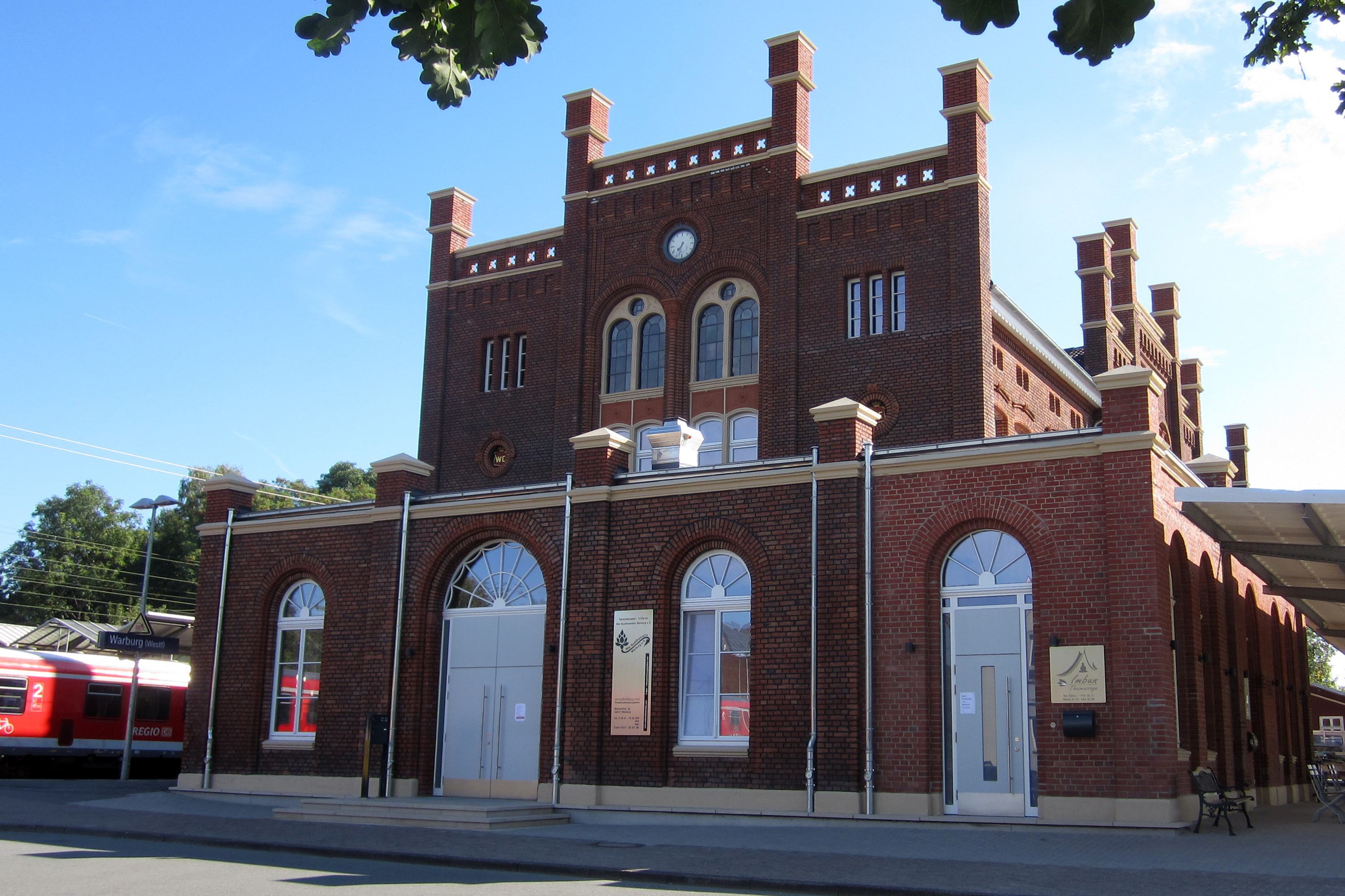 The newly restaurated, landmarked station building of Warburg station with historic gable roof. The building was constructed 1852/1853 and is today's home of a Buddhist pray and meditation center, in addition to a small bistro.This is a photograph of an architectural monument., no. 0